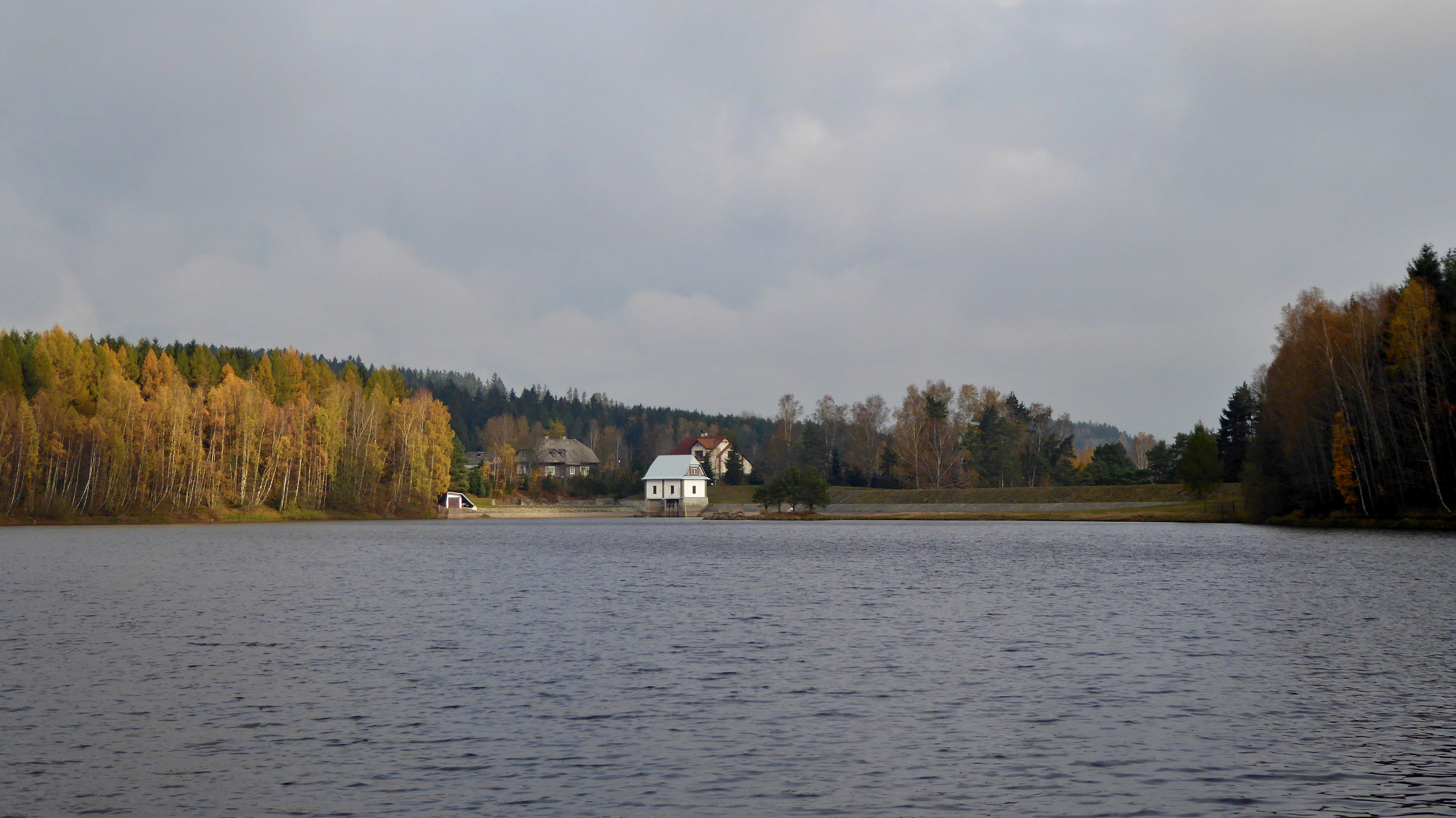 The Hamry Water Reservoir or also the Hamerska Dam is a water work built in the years 1907-1912 on the Chrudimka River in landscape area of the Iron Mountains, from an administrative point of view on the border of the municipalities Studnice and Hamry in the Chrudim district belonging to the Pardubice Region in the territory of the Czech Republic. On November 15, 1907 at 10 o'clock the construction of the water reservoir was commenced – construction of a by-pass tunnel for the river. In 1910 the construction of the dam continued. In September 1912 the construction of the water work was completed. The dam is in the river kilometer 93.133 and retains 3.67 million cubic meters of water, 80.55 hectares is maximum water area, dam length is 208.4 meters and 17.7 m is the height of the dam. The water reservoir belongs to Administrative of The Elbe River Basin, of state enterprise. Photo-location: Czechia, Pardubice Region, village Hamry, "Kameničská" Highlands", 600 m above sea level.